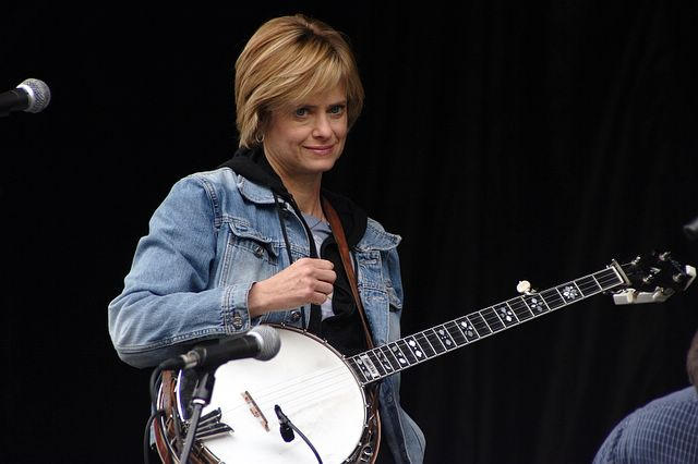 Alison Brown, playing with her quartet at MerleFest 2006, Wilkes County, North Carolina. Photo by Forrest L. Smith, III.